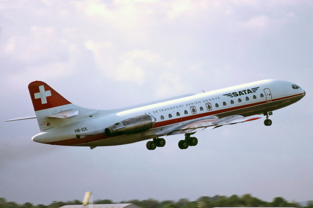 SATA Sud SE-210 Caravelle 10B1R take off at Gatwick